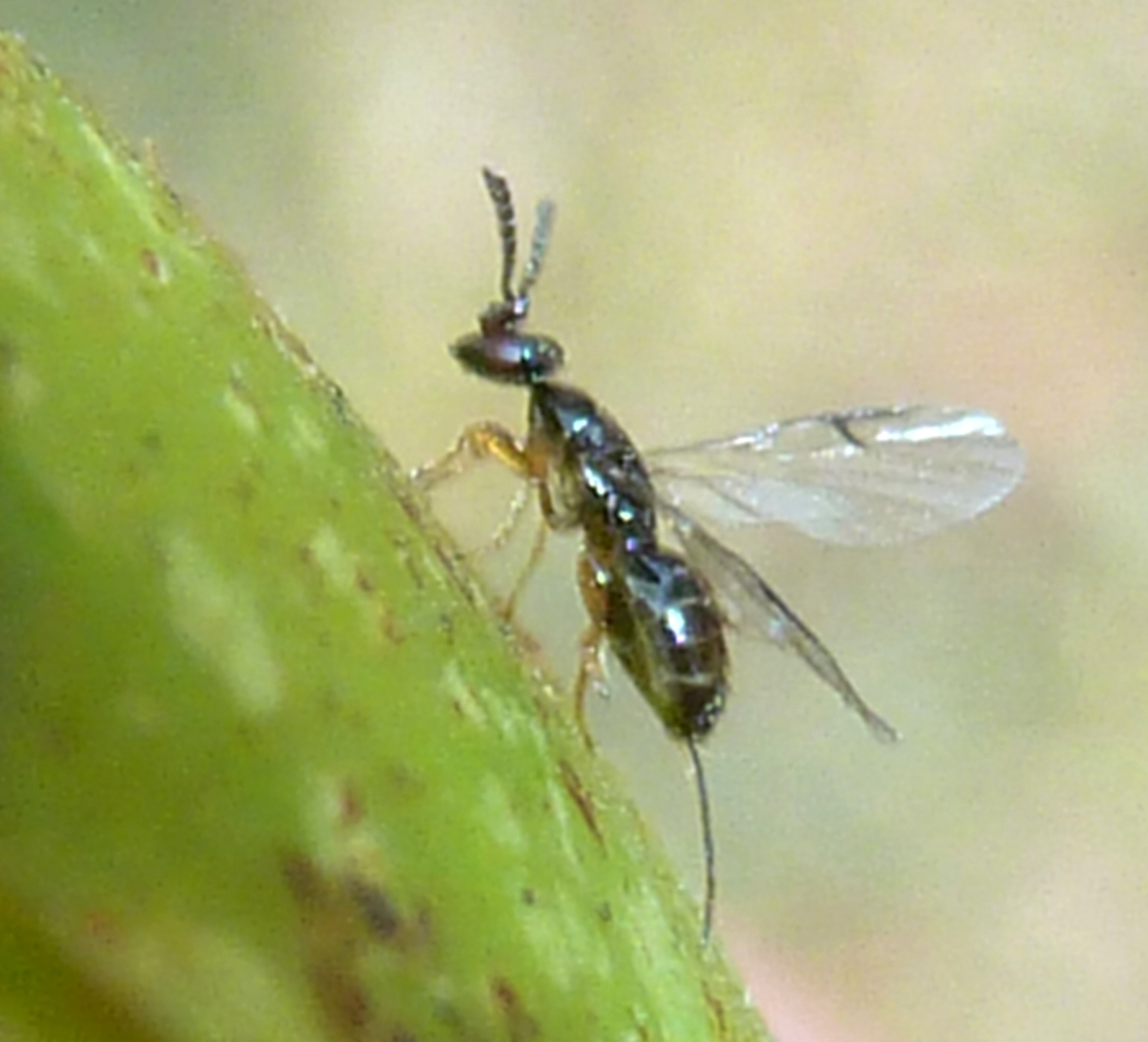 Ceratosolen capensis on Ficus sur in Jan Celliers Park, Pretoria